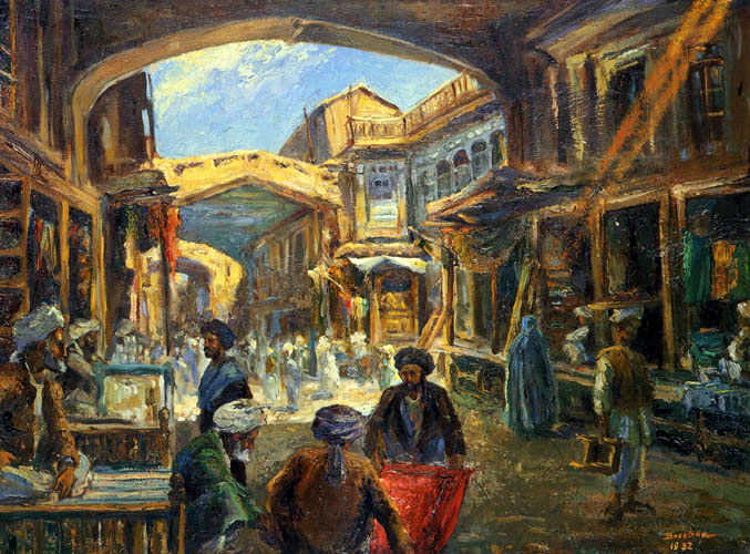 "The Char-Chatta Bazaar of Kabul," by A. Gh. Brechna, 1932 inhalt/show/brechna1b.html (downloaded Dec. 2004) "A. Gh. Brechna: The Char-Chatta-Bazar of Kabul (2. Version). Oil on canvas; 96 x 72cm.Kabul, 1932."